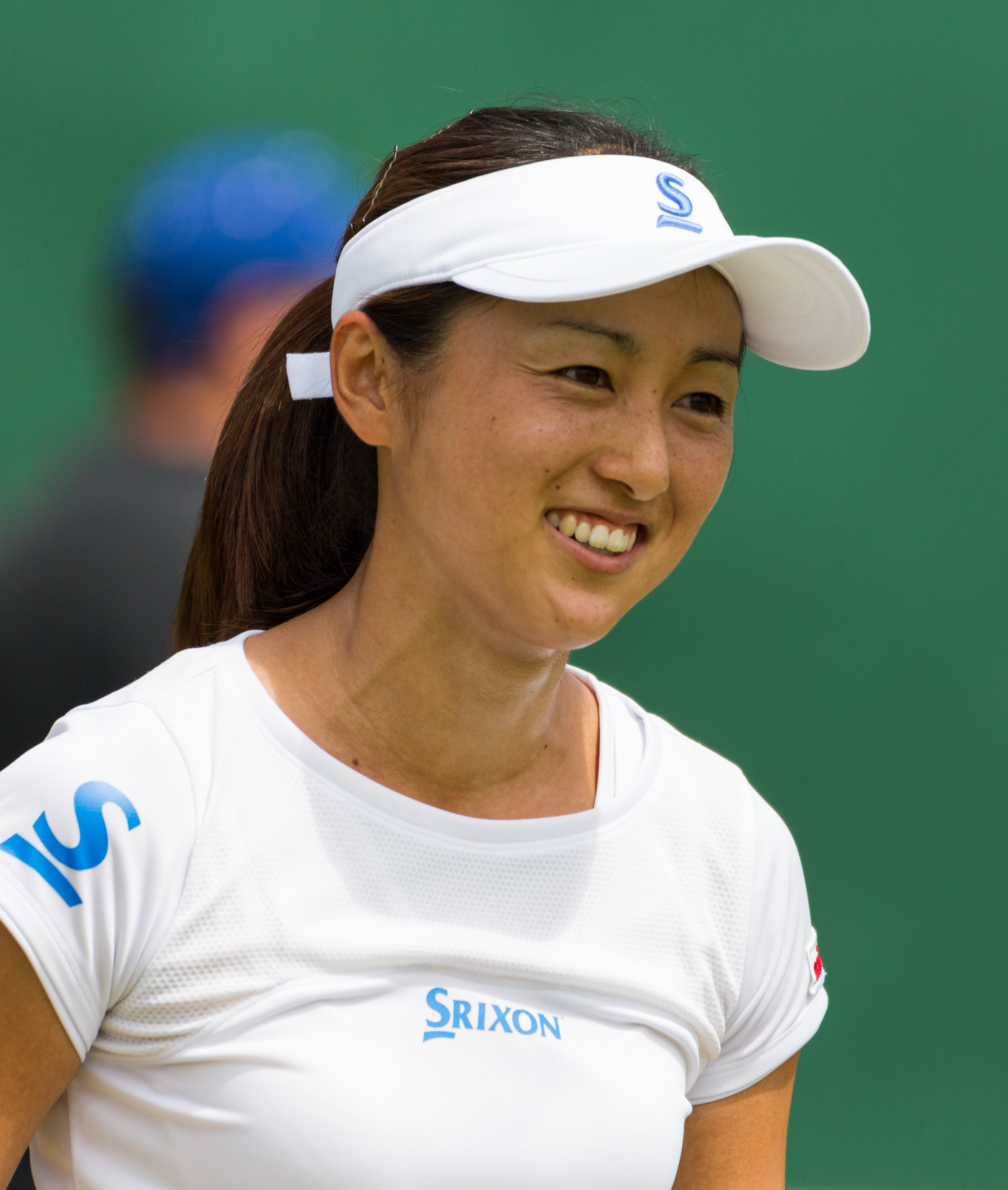 Misaki Doi competing in the second round of the 2015 Wimbledon Womens Doubles Qualifying Tournament with Stephanie Vogt at the Bank of England Sports Grounds in Roehampton, England. The winners of two rounds of competition qualify for the main draw of Wimbledon the following week.